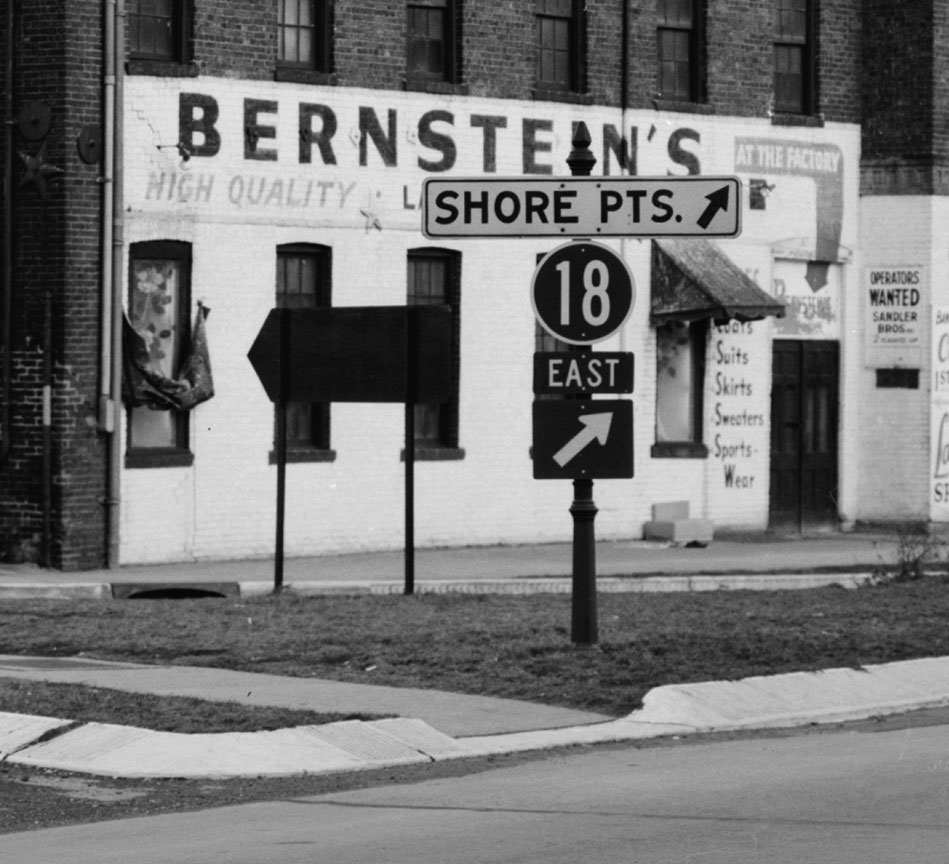 New Jersey Rubber Shoe Company Building No. 1, Albany Street, New Brunswick, Middlesex County, NJ. Route 18 is now signed north-south.